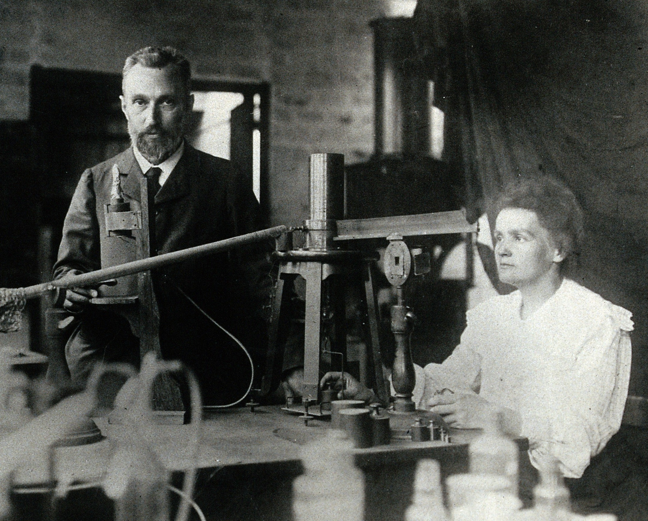 Pierre and Marie Curie in the laboratory, demonstrating the experimental apparatus used to detect the ionsation of air, and hence the radioactivity, of samples of purified ore which enabled their discovery of radium. Marie is operating the apparatus. With her right hand she is adding/subtracting known weights from a pan hanging from a strip of piezo-electric material which generates a very small elecrical charge (in the region of pico-amps) according to the weight hung on it. This is nulled against the charge accumulated on an ion chamber due to radioactivity. In her left hand she has a stopwatch to measure the rate of change of charge using a quadrant electrometer. When the weight is changed, the time elapsed for the charge to be nulled is measured by the stopwatch. The charge is indicated by a light spot on the scale in front of her projected by the quadrant electrometer, which is off the left of the picture.